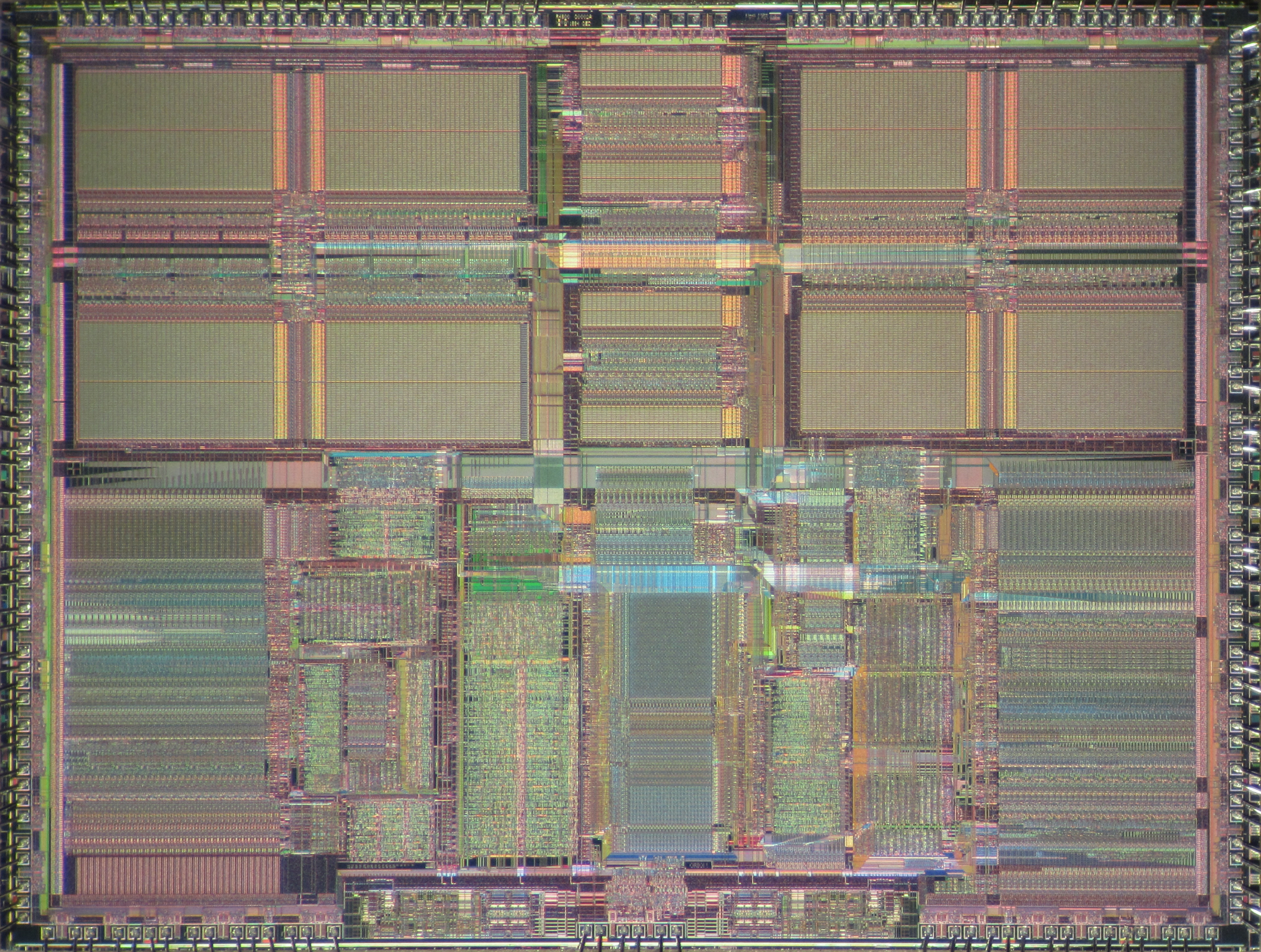 Die shot of IDT R4600 MIPS microprocessor (79R4600-100G).